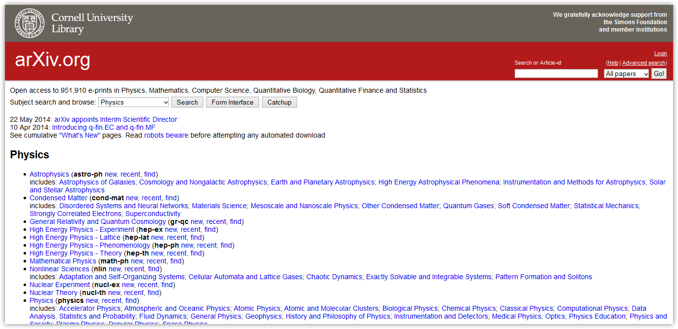 Screenshot of the main page of the website , per July 6, 2014.